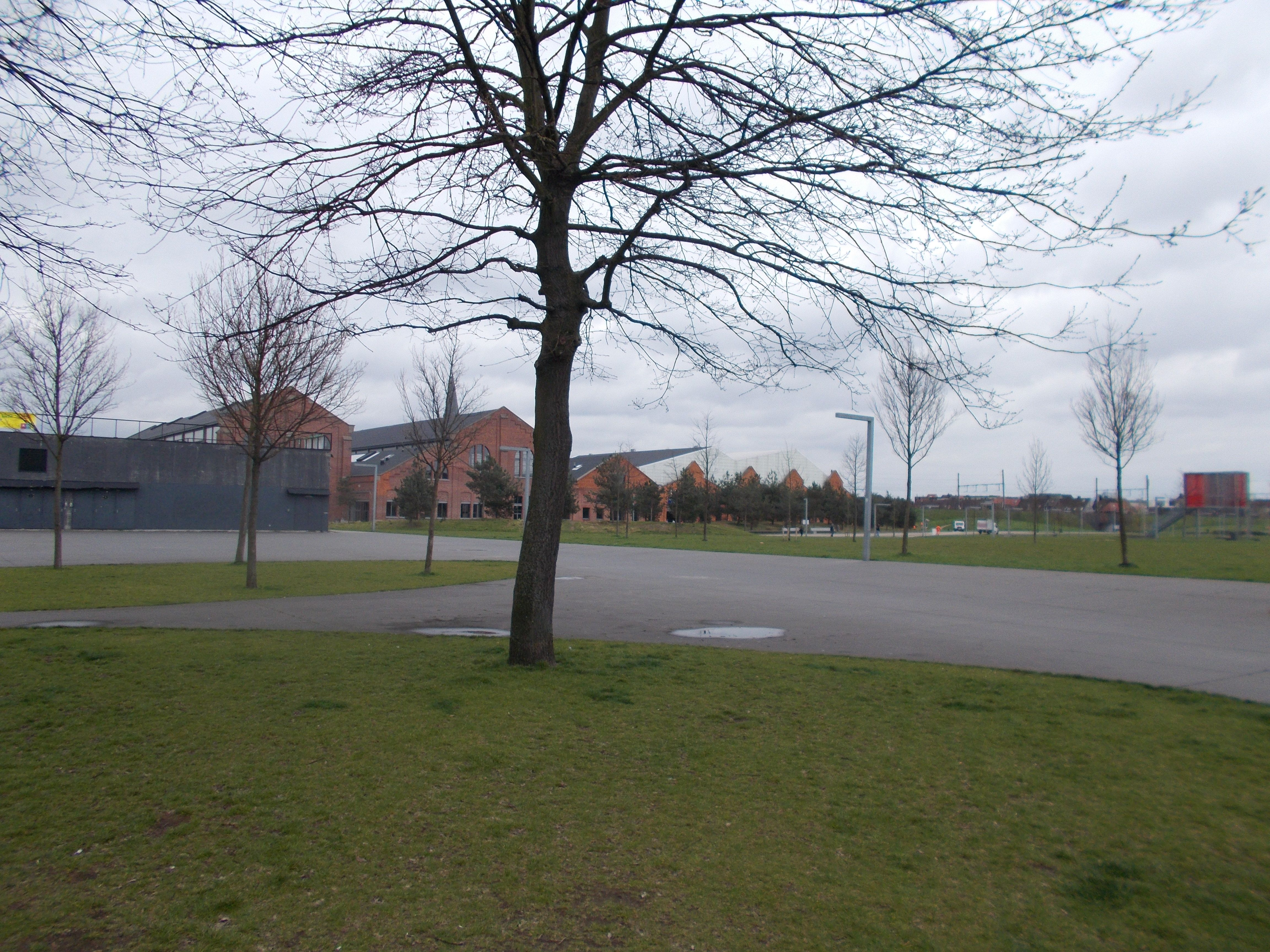 Park Spoor Noord in Antwerpen